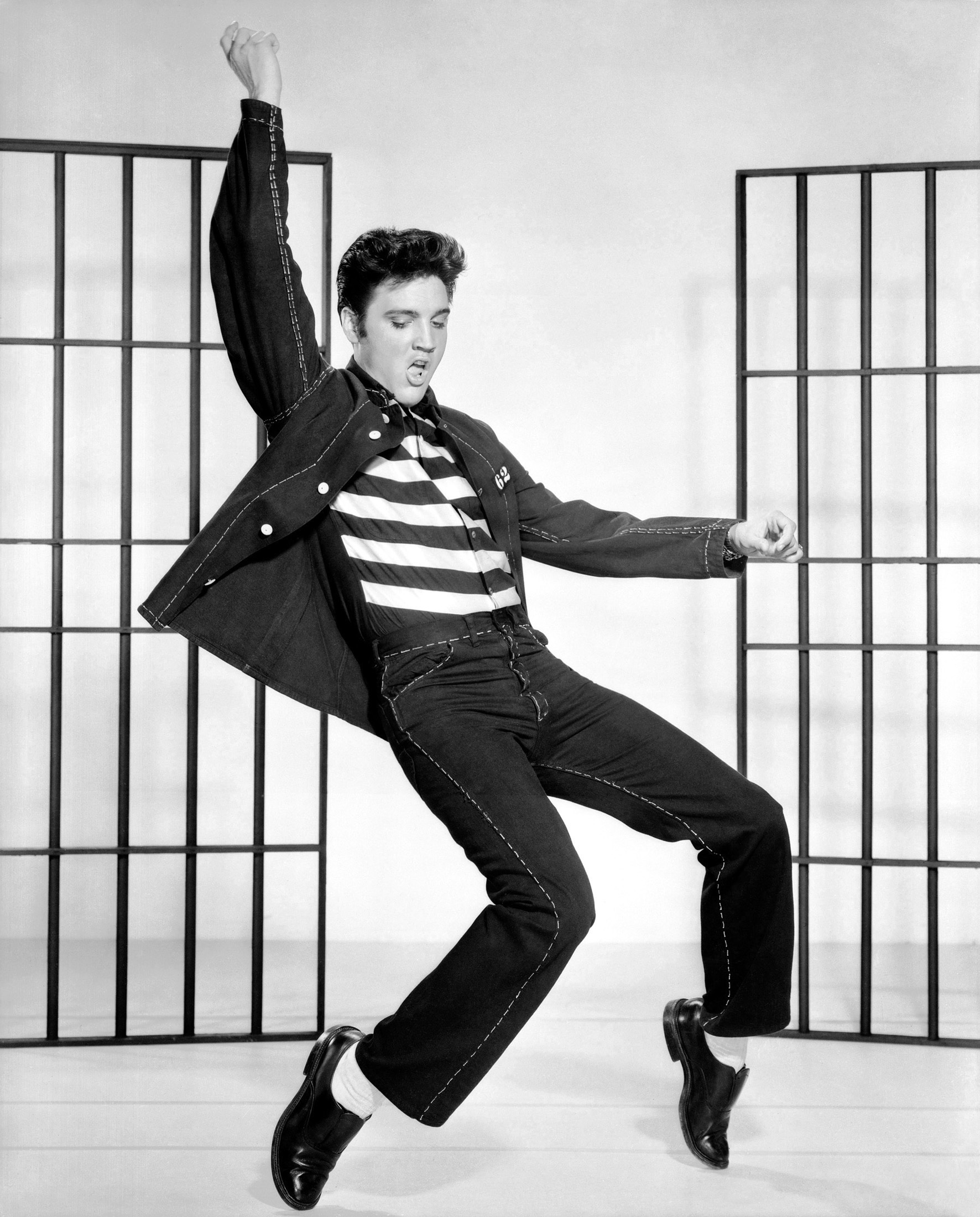 A photograph promoting the film Jailhouse Rock depicts singer Elvis Presley.